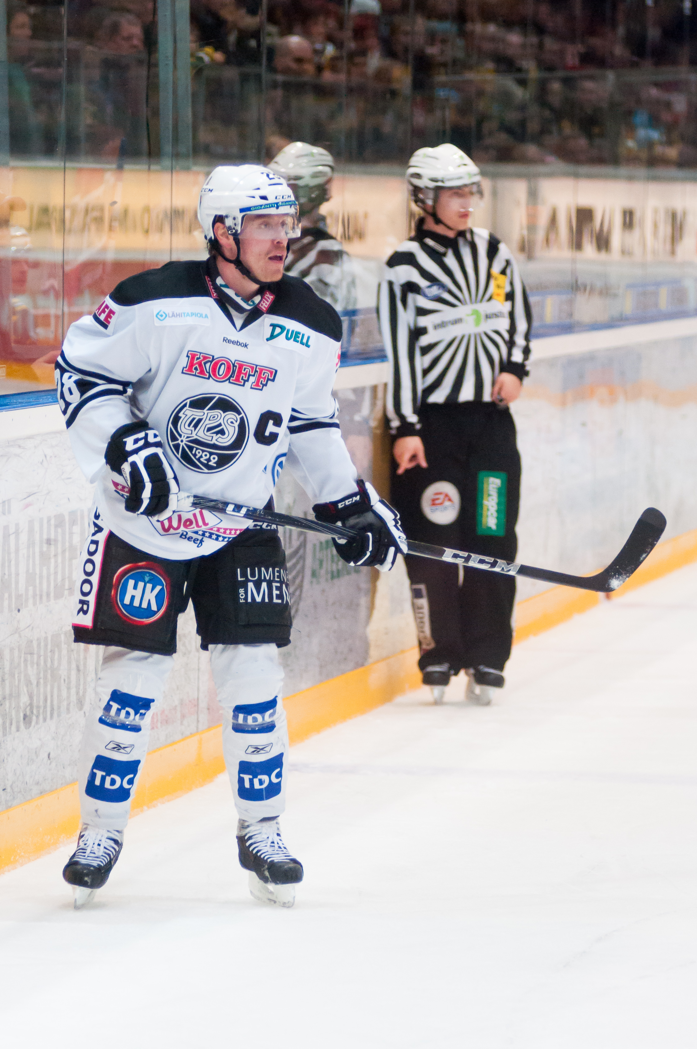 Finnish ice hockey forward Ville Vahalahti playing for Turun Palloseura against SaiPa Lappeenranta in Lappeenranta, Finland.